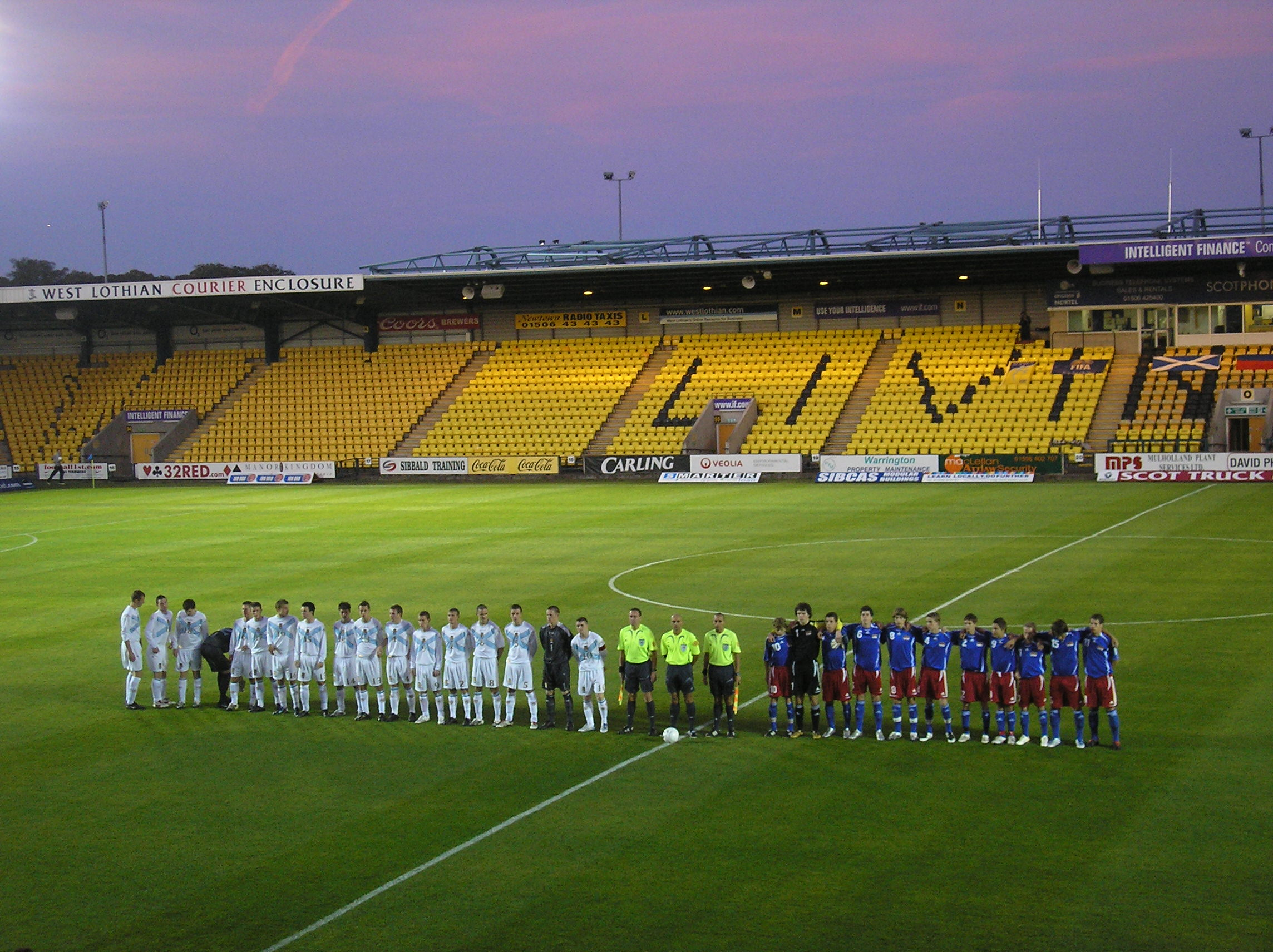 Scotland U17 - Liechtenstein U17 (Football). The Scots won 8-0. Scotland U17 8 Liechtenstein U17 0. The scots just tore the opposition apart in this match.